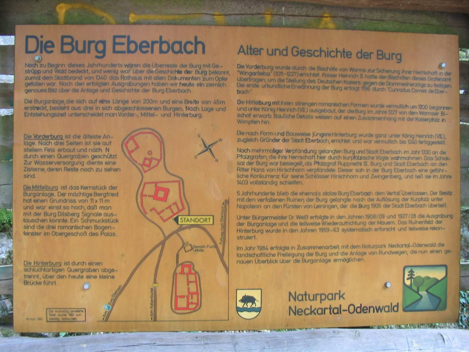 Information board at Burg Eberbach, EberbachEberbach, Germany.